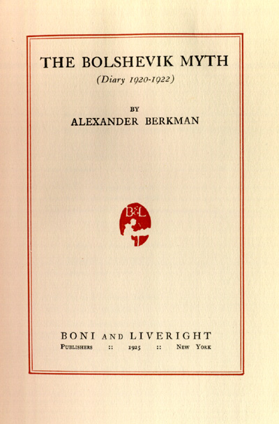 Cover of The Bolshevik Myth